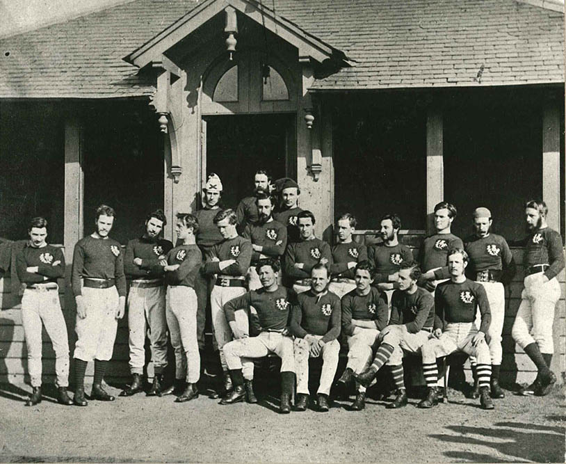 Scotland national rugby union team that played the 1st international v England in Edinburgh. Players are: (fltr): (back): R. Munro, J.S. Thompson, J.W. Arthur, T. Chalmers; (standing): A. Buchanan, A.G. Colville, J. Forsyth, J.A. Mein, R.W. Irvine, W.D. Brown, A. Drew, W. Cross, J.F. Finlay, F.J. Moncreiff, G. Ritchie; (sitting): B. Ross, W. Lyall, T.R. Marshall, J.H. McFarlane, A.H. Robertson.